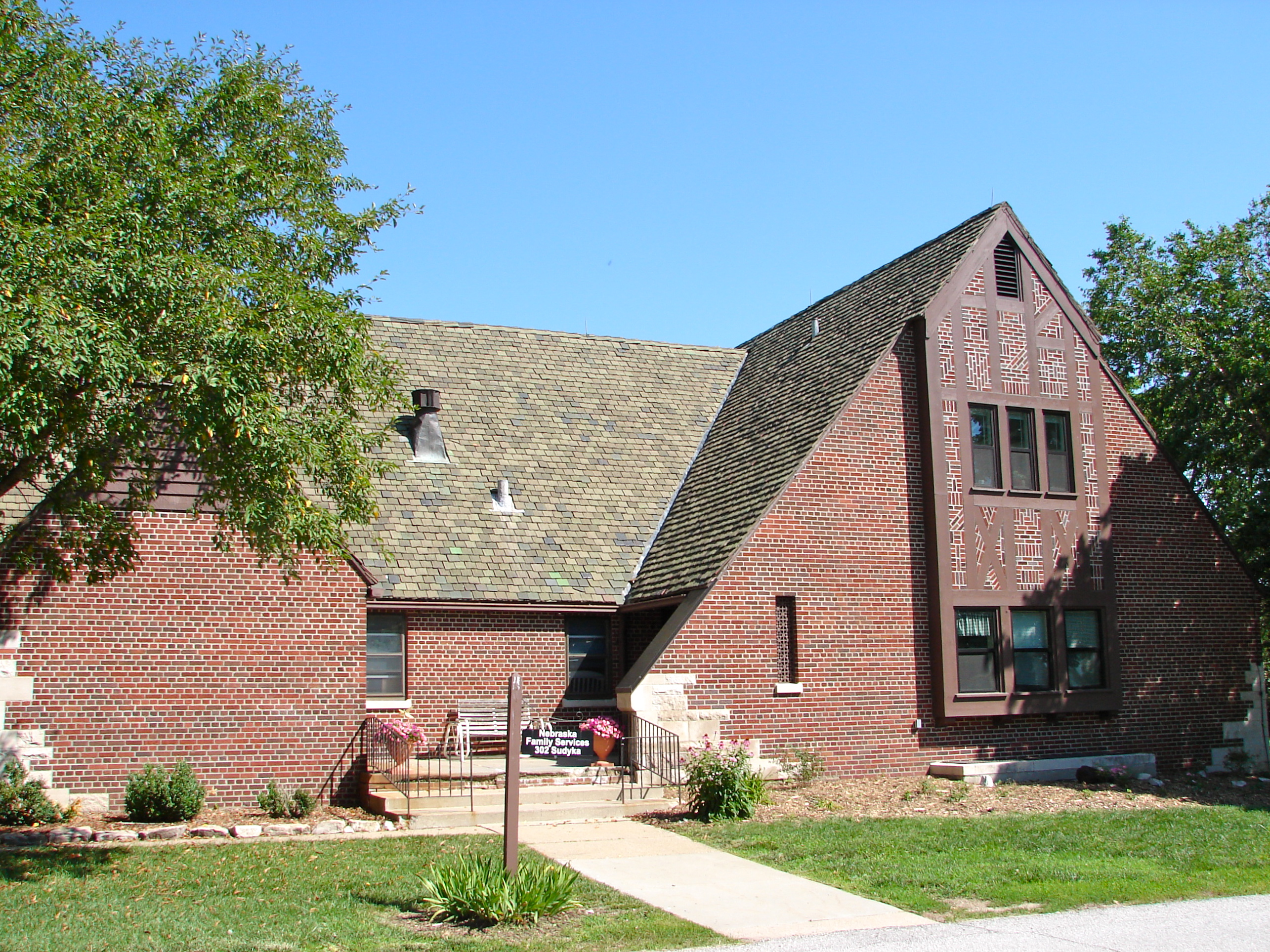 Nebraska Family Services building in "Boys Town", Nebraska, just outside Omaha. AKA Father Flanagan's Boys' Home , W. Dodge Rd., Boys Town, Nebraska. This is the general place that the movieBoys Town was based on. A National Registered Historic Place and National Historic Landmark.